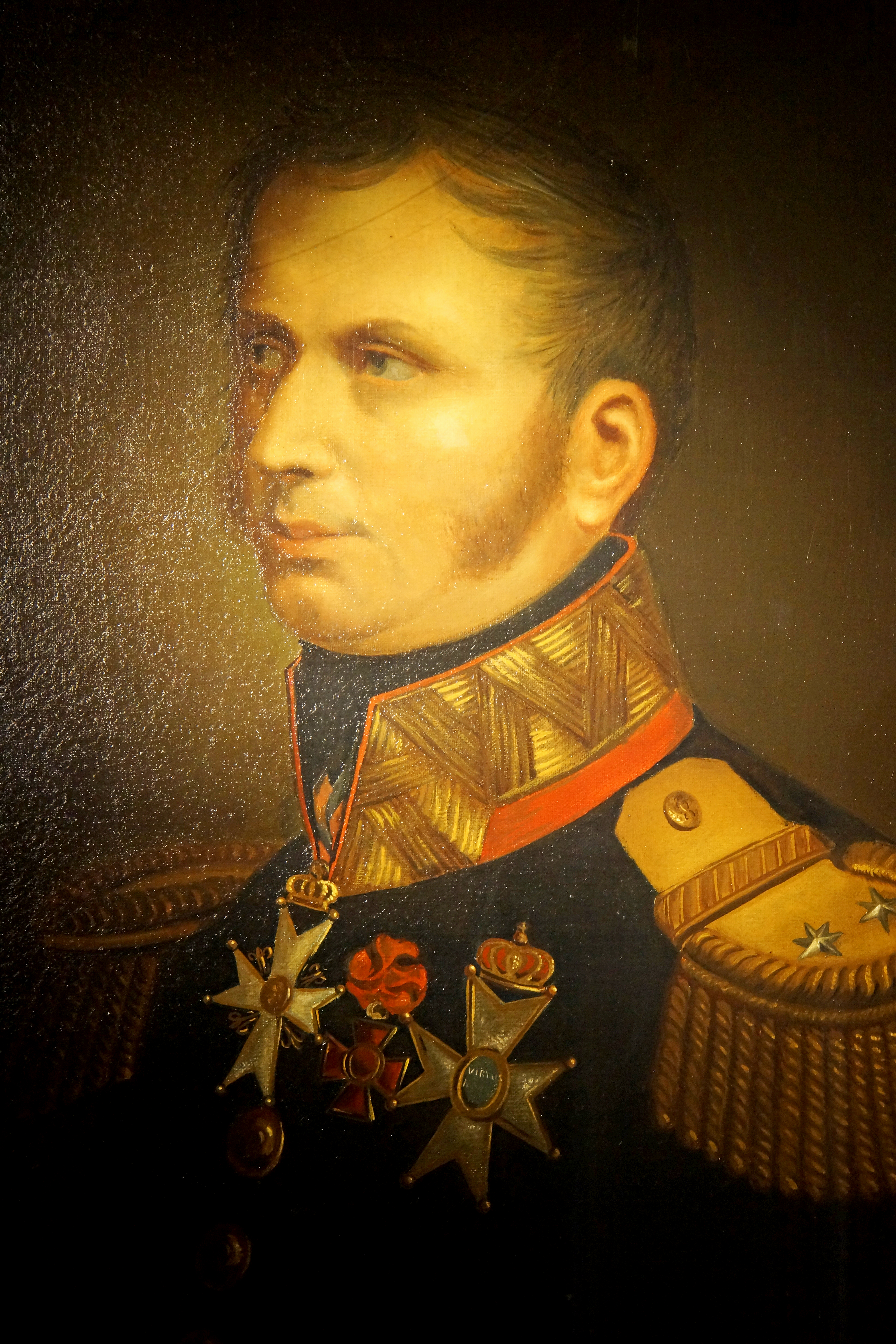 PLEASE, NO invitations or self promotions, THEY WILL BE DELETED. My photos are FREE to use, just give me credit and it would be nice if you let me know, thanks. This is Count van der Burch who was authorized in February 1814 by the allied military authority to raise a regiment of light horse. His Cavalry regiment was incorporated in September 1814 into the emerging Dutch-Belgian army. On 7 June 1815, it became the Se Light Dragoons, under the command of lieutenant-colonel de Mercx. It fought with distinction in the Battle of Quatre-Bras and Waterloo. It subsequently gave birth to the 1st regiment of Lancers of the Belgian Army, which has retained, from its origins, its war cry of "Valiant of van der Burch".